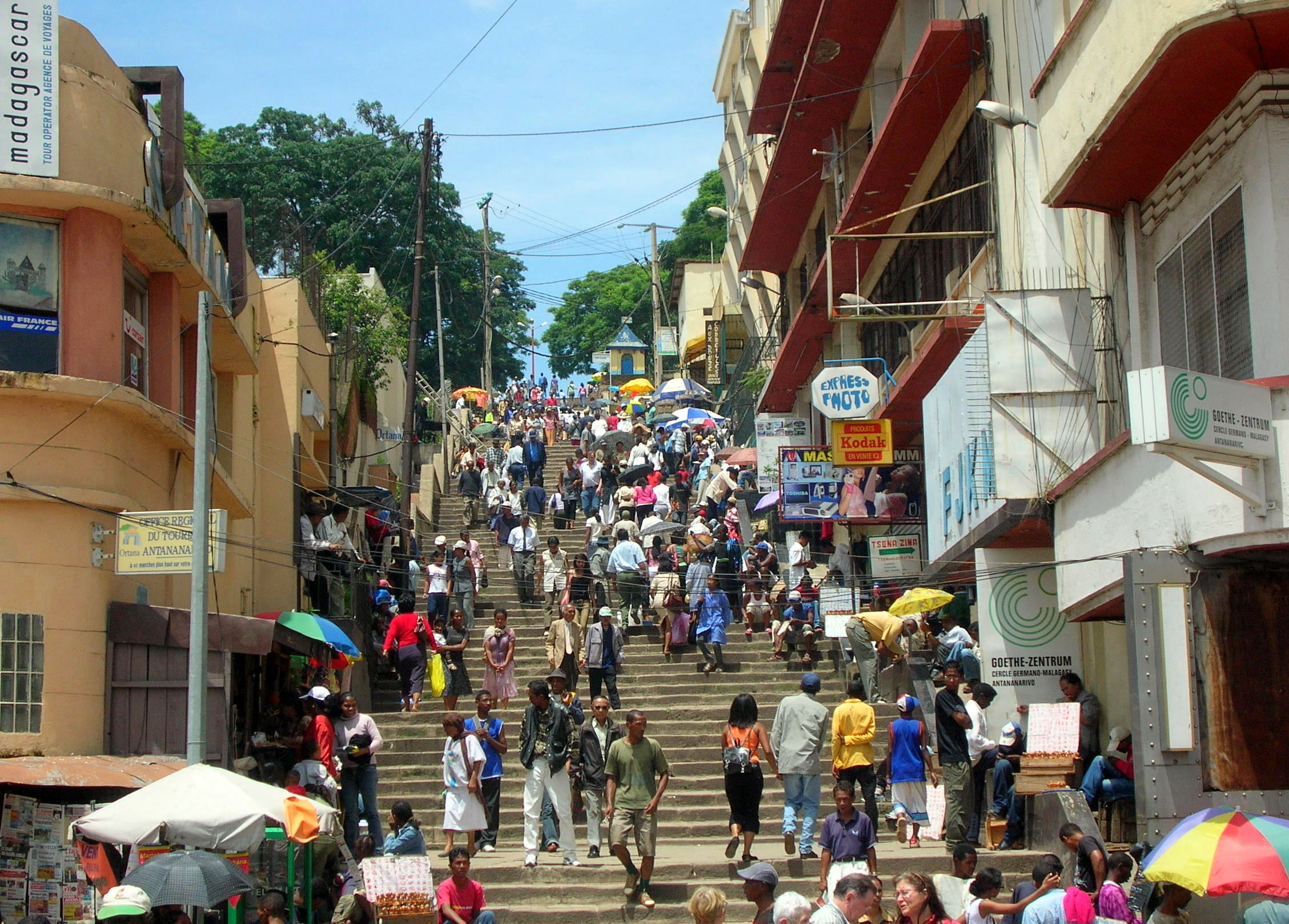 Staircases leading to the Independence square, Antananarivo, Madagascar